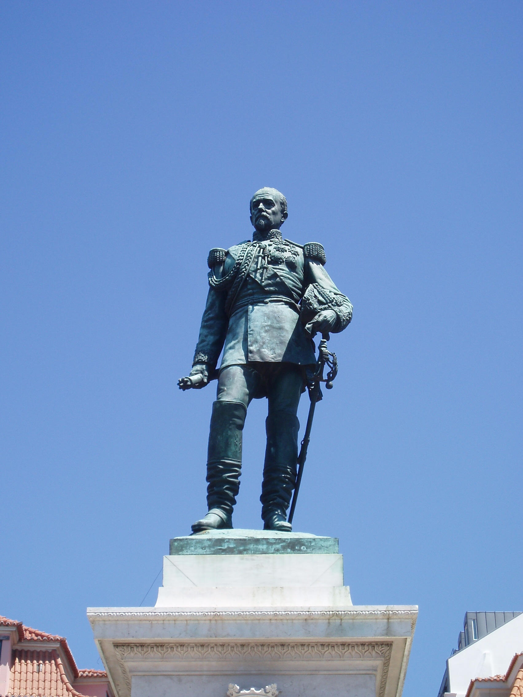 Statue of the 1st Duke of Terceira (António José Severim de Noronha) near the Cais do Sodré train station, Lisbon, Portugal.